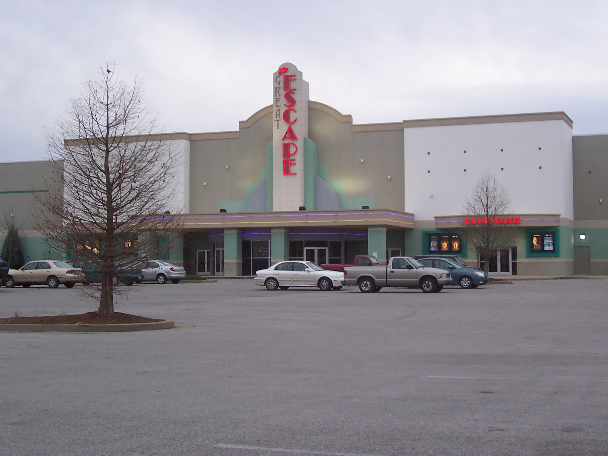 Great Escape Theatre, Bowling Green 12 Theatre, Bowling Green, Kentucky